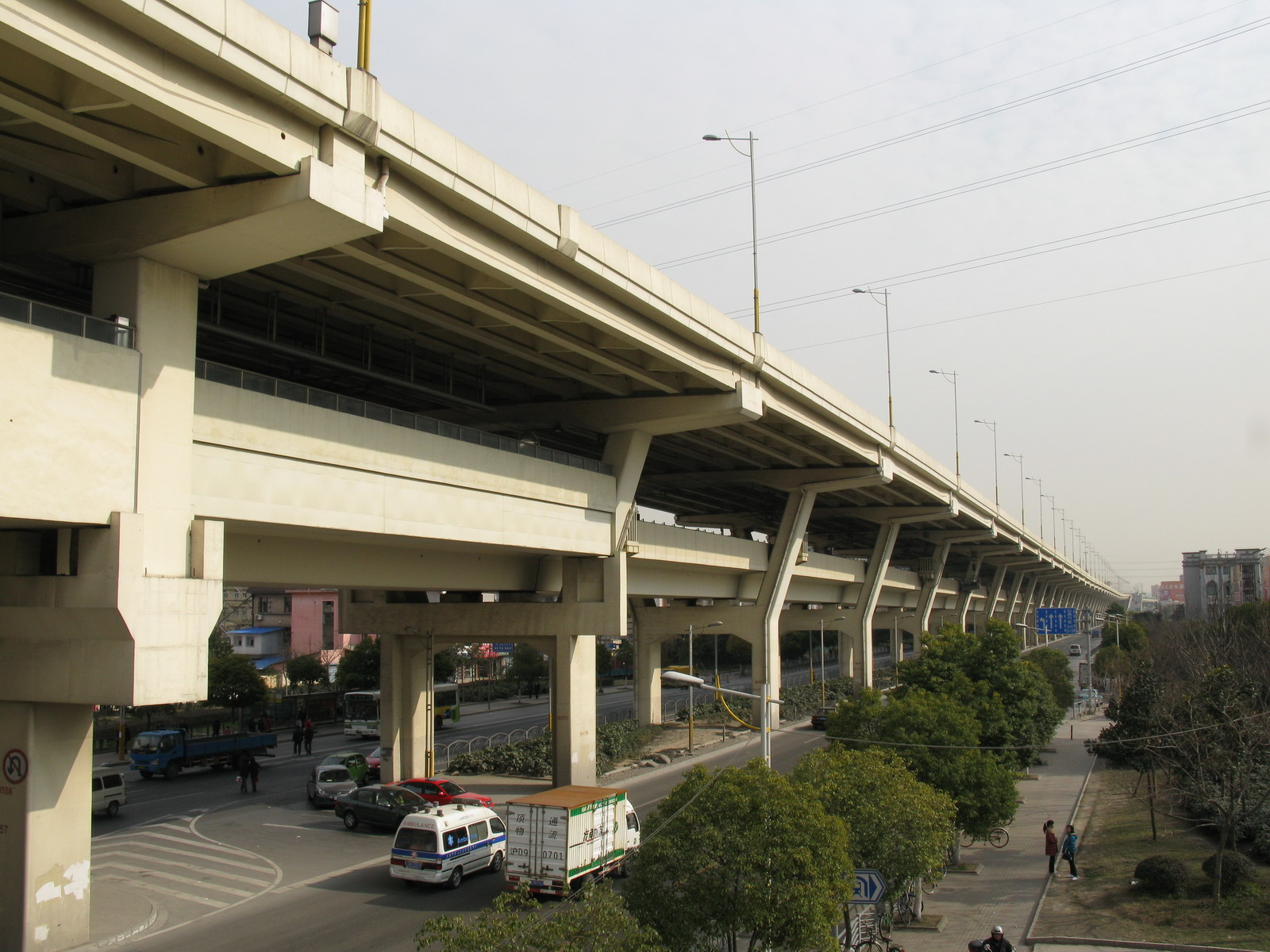 Gonghexin Road Changjiang Road (W)